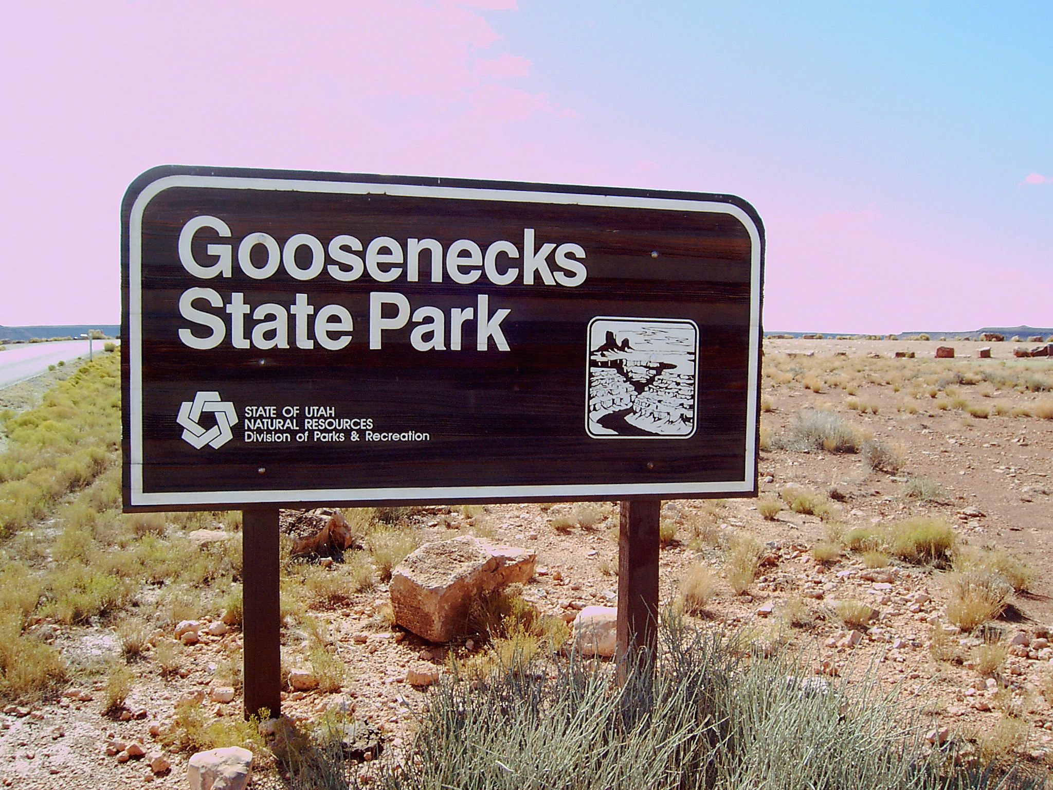 Park sign for Goosenecks State Park — on the San Juan River. Entrance of the state park — located in southeastern Utah (U.S.).